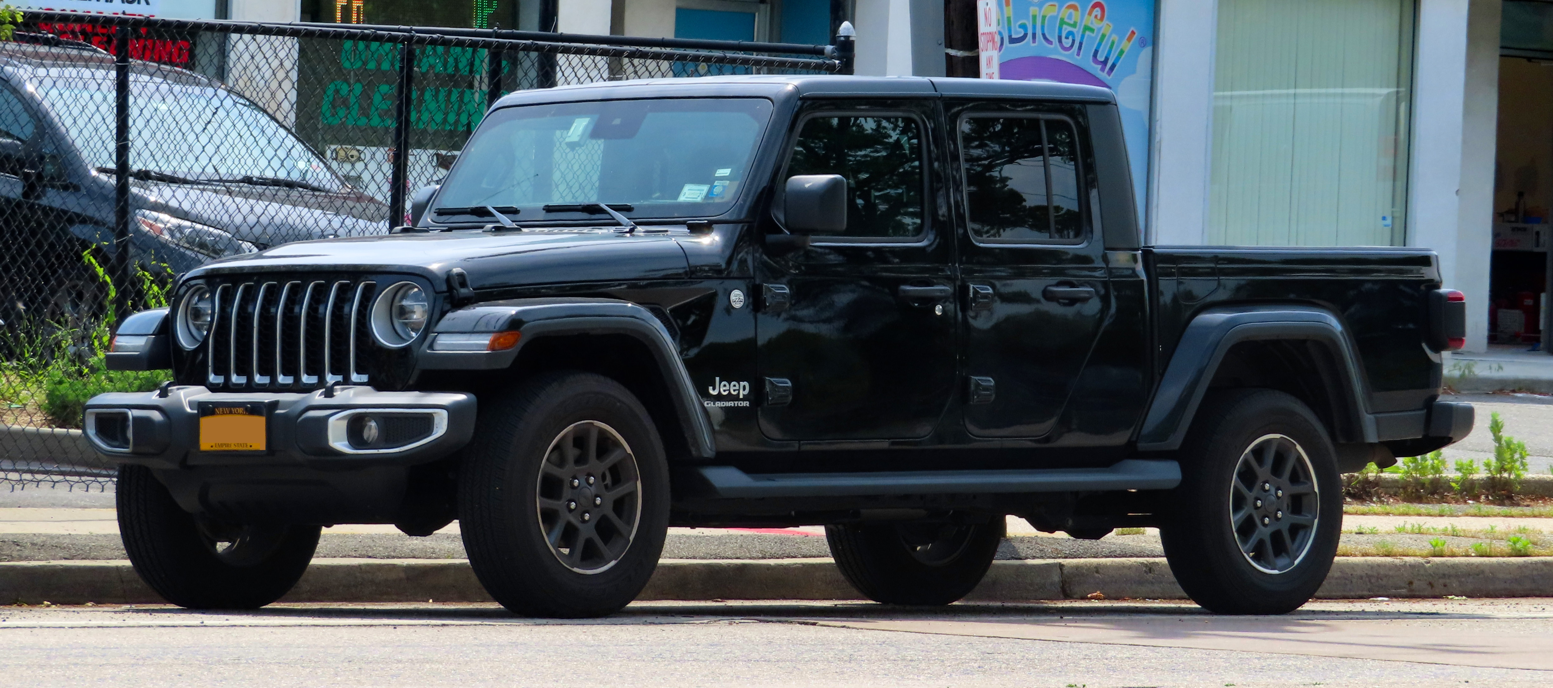 A 2020 Jeep Gladiator photographed in Wantagh, New York, USA